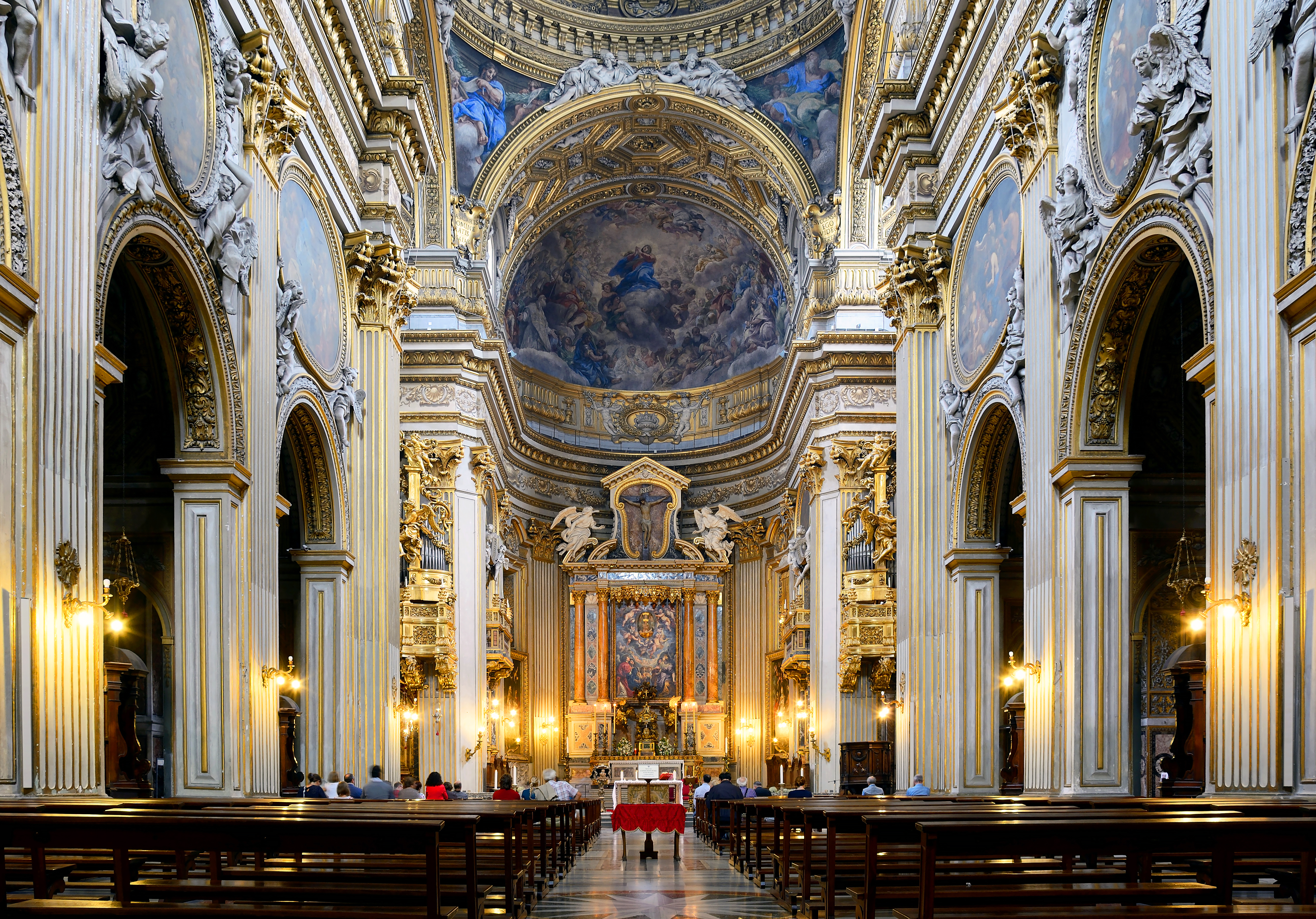 Santa Maria in Vallicella (Rome) - Intern